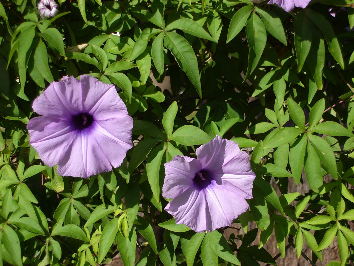 Ipomoea cairica, Cairo morningglory, (maile miniti) a common weed on a fence in Tonga